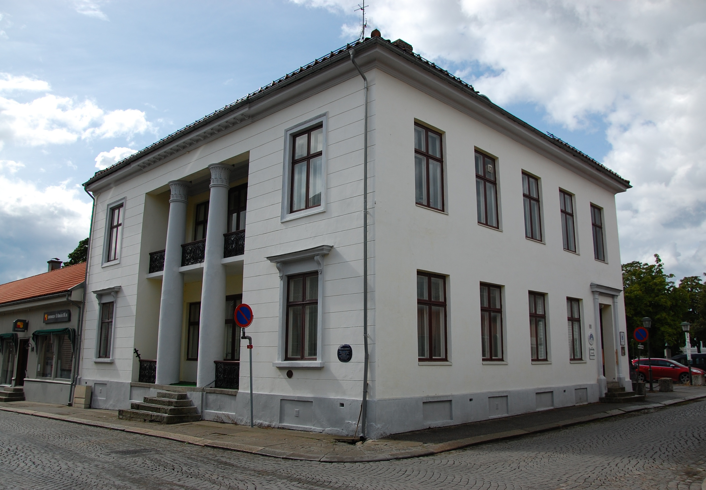 Building in Halden town, Norway, by Christian Grosch.